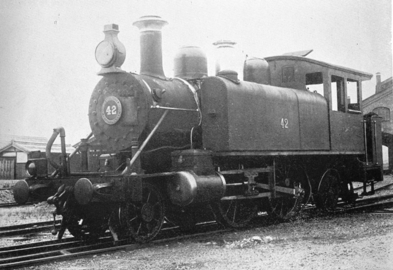 Japan Government Railway type 950 steam locomotive (ex. Sanyo Railway 42)